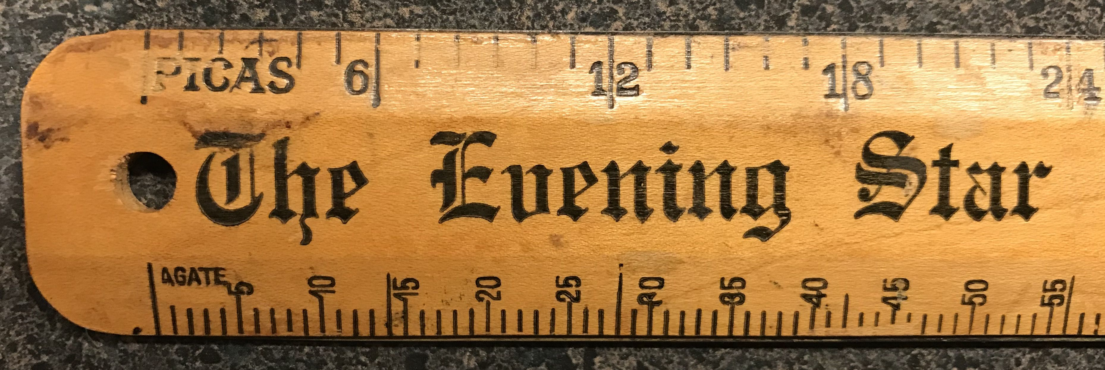 Wooden ruler with several typographic units